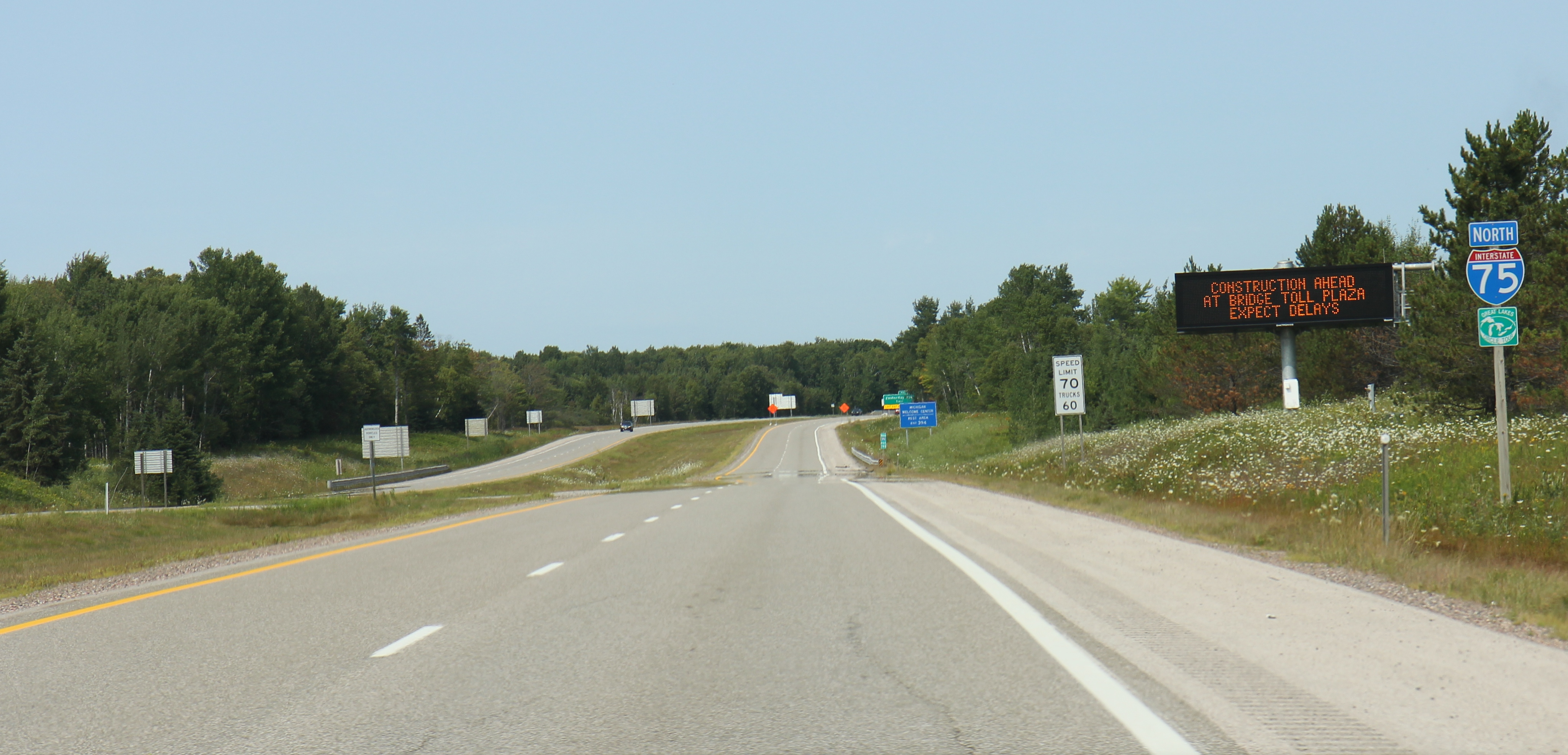 The Great Lakes Circle Tour on Interstate 75 between St. Ignace and Sault Ste Marie, Michigan. This segment contains the Lake Superior & Lake Huron Circle Tours.